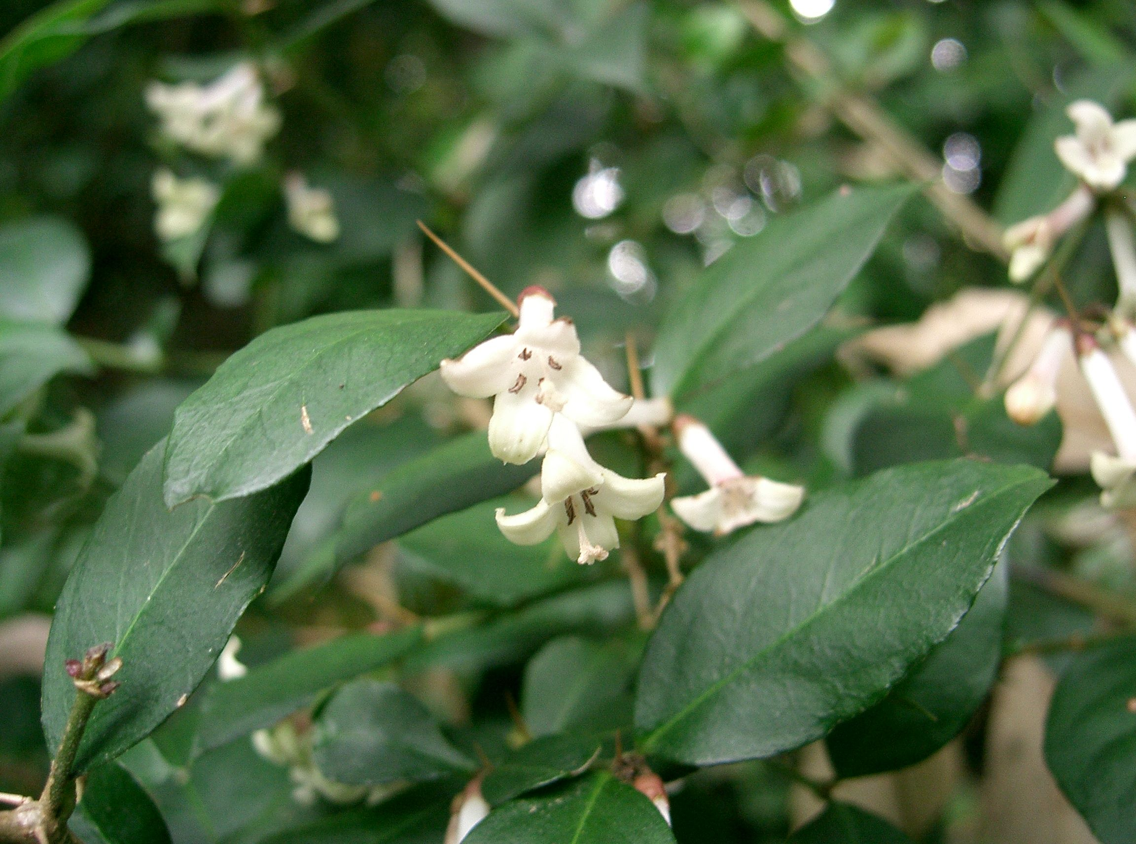 Damnacanthus indicus subsp. major